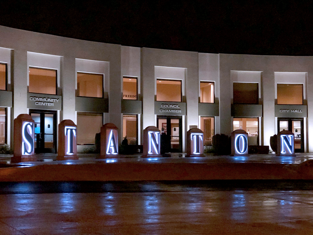 Photo of Stanton City Hall after rainfall.